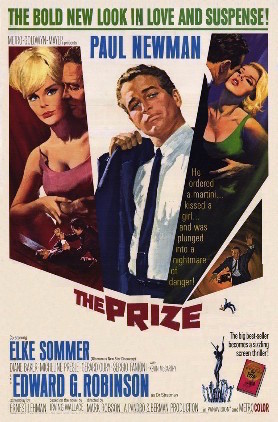 Theatrical poster for the American film The Prize (1963)